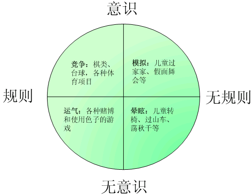 The 4 categories of the game (Simplified Chinese)